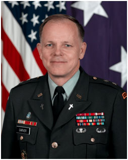 Douglas L. Carver, Chief of Chaplains of the United States Army.